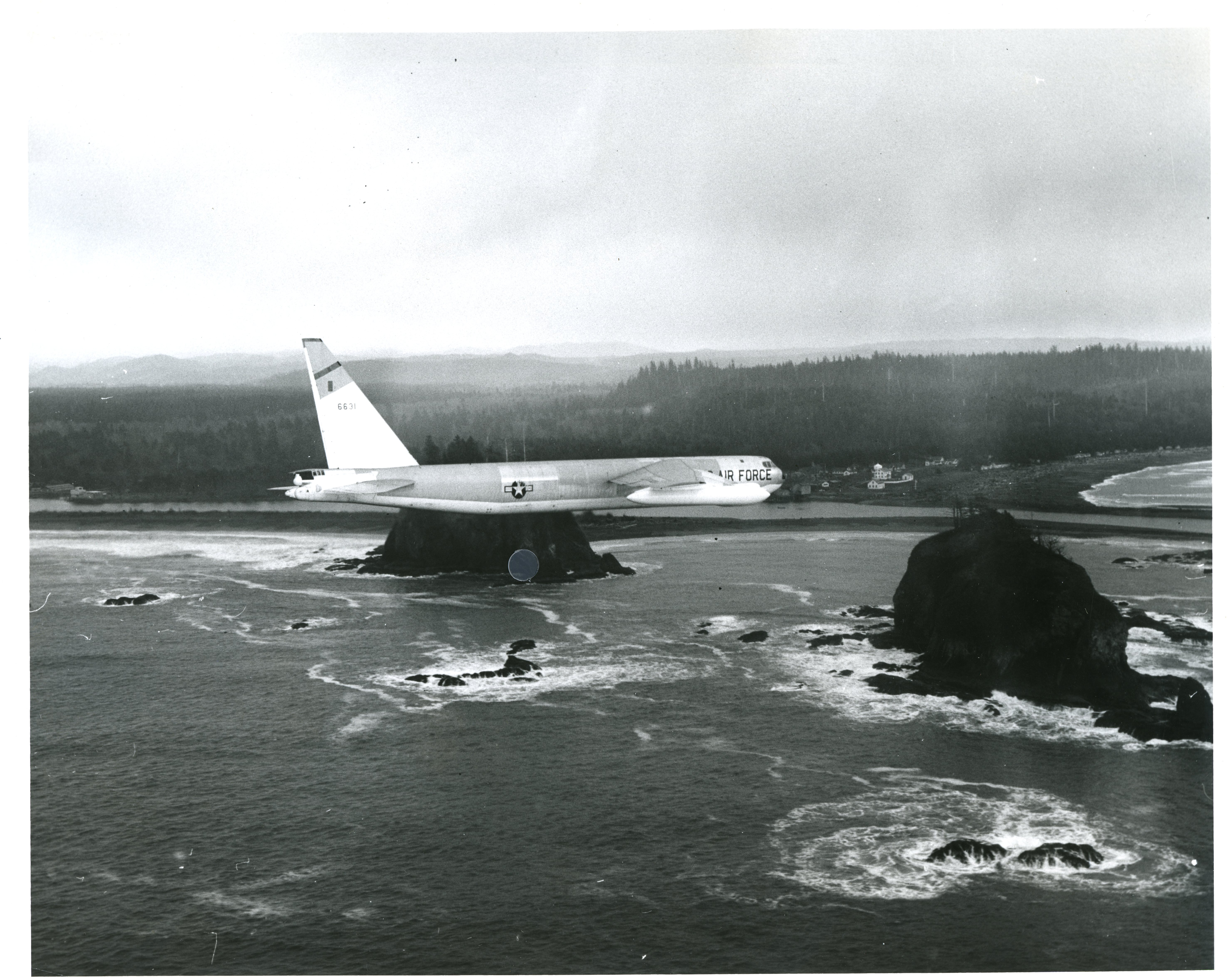 B-52E Low level flight test P-19899